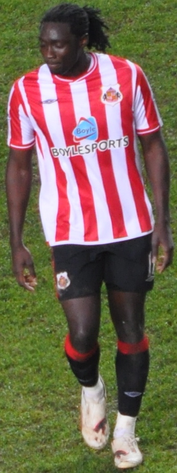 Kenwyne Jones in action for Sunderland against Chelsea on 17 January 2010 at Stamford Bridge.